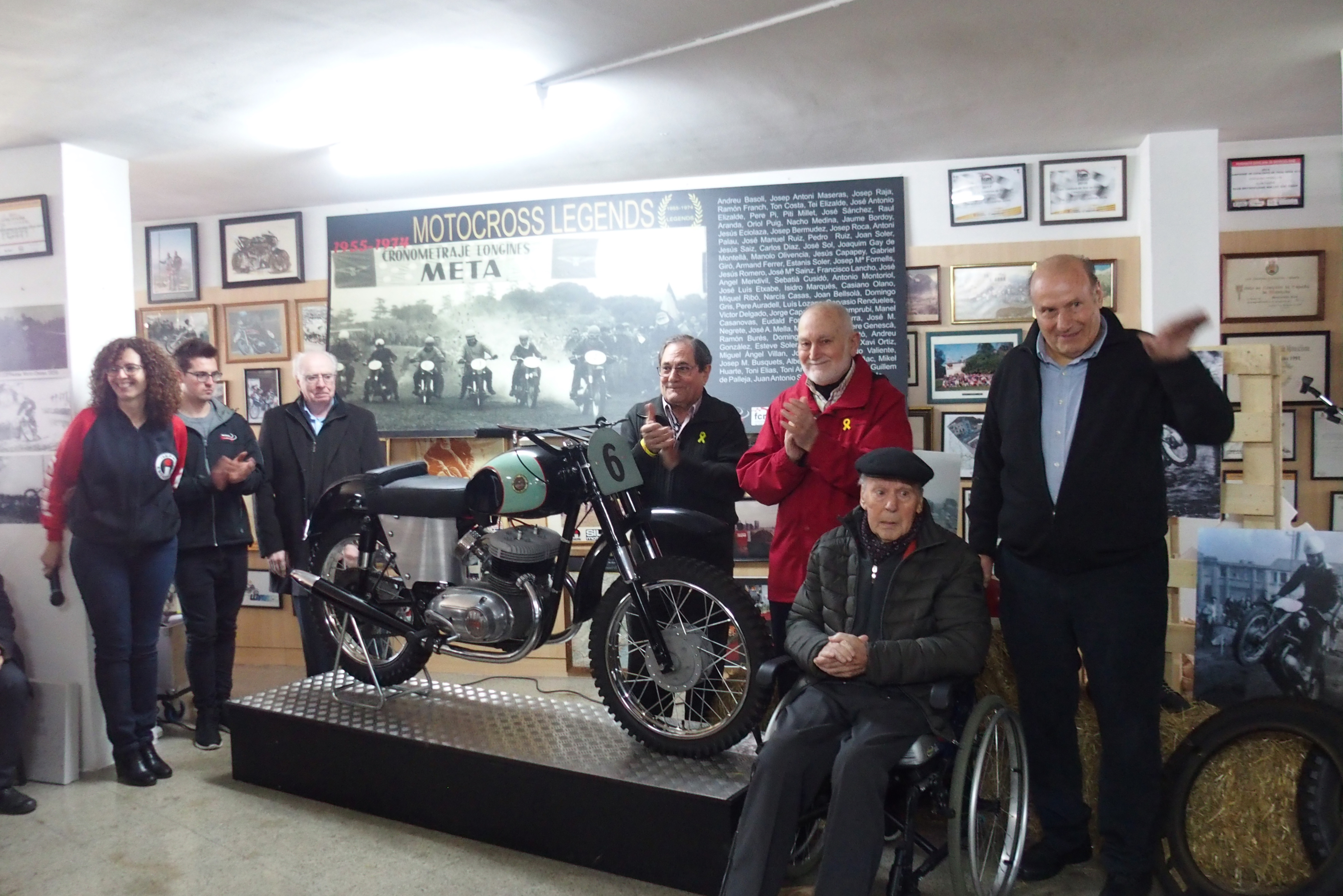 Form left to right: Glòria Isern, a young mechanic, Estanis Soler, Toni Palau, Pere Pi, Andreu Basolí and Josep Isern